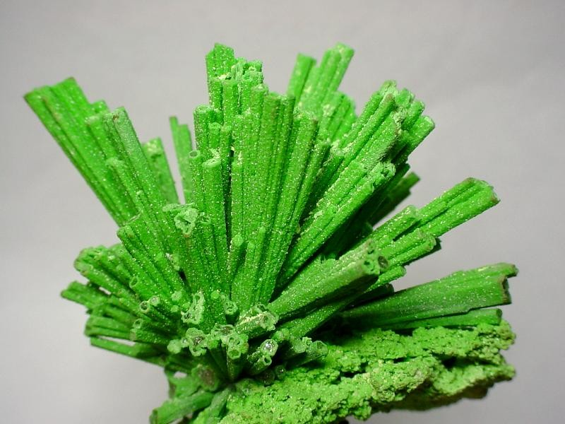 Bayldonite Locality: Tsumeb Mine (Tsumcorp Mine), Tsumeb, Otjikoto (Oshikoto) Region, Namibia (Locality at ) Size: 5 x 4 x 3.5 cm. This is a complete-all-around, radiating spray of glistening, sparkly, grass-green bayldonite that has completely replaced a mimetite cluster. It dates from the first oxidation zone, 1890s-1910s at the latest. Ex. Sussman and Dr. Georg Gebhard Collections. This Photo was Photo of the Day - 16th Jul 2008